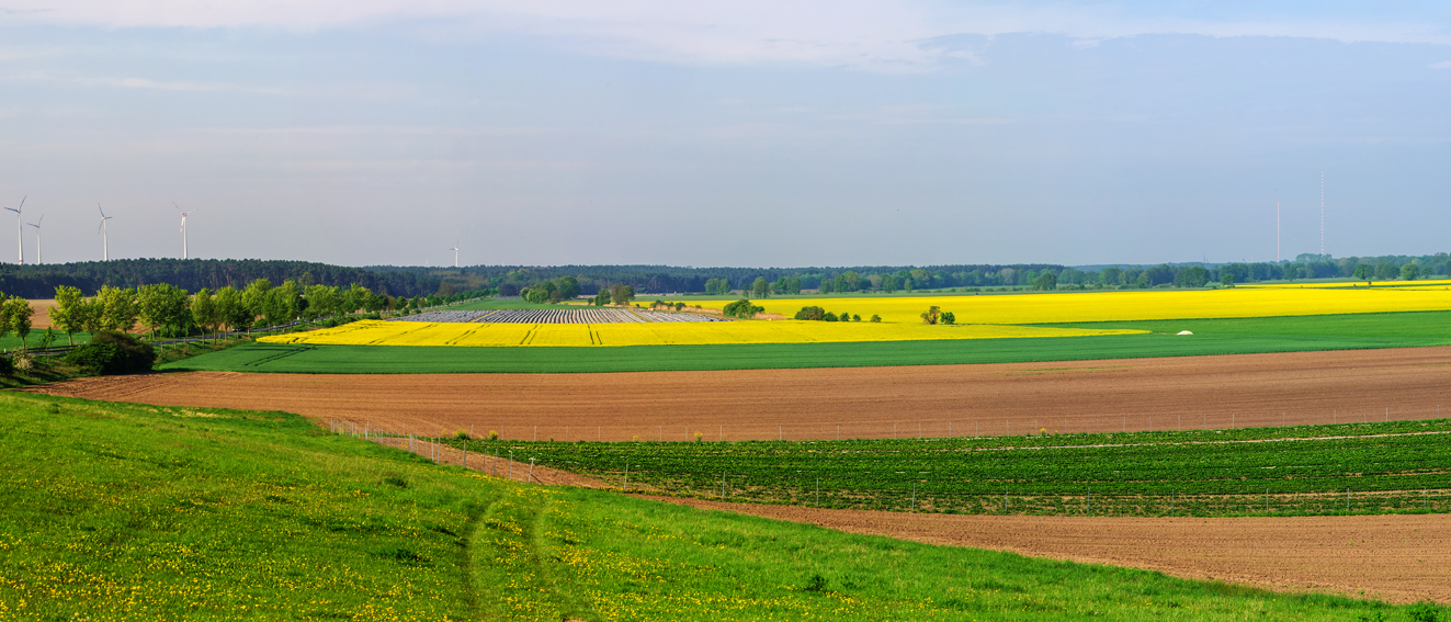 View from the farm barn towards the west